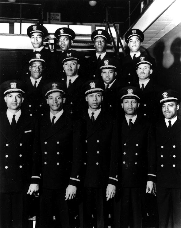 "The Golden Thirteen", the first African-American U.S. Navy commissioned officers. They are (bottom row, left to right): Ensign James E. Hare, USNR; Ensign Samuel E. Barnes, USNR; Ensign George C. Cooper, USNR; Ensign William S. White, USNR; Ensign Dennis D. Nelson, USNR; (middle row, left to right): Ensign Graham E. Martin, USNR; Warrant Officer Charles B. Lear, USNR; Ensign Phillip G. Barnes, USNR; Ensign Reginald E. Goodwin, USNR; (top row, left to right): Ensign John W. Reagan, USNR; Ensign Jesse W. Arbor, USNR; Ensign Dalton L. Baugh, USNR; Ensign Frank E. Sublett, USNR. Courtesy of Surface Warfare Magazine, 1982.